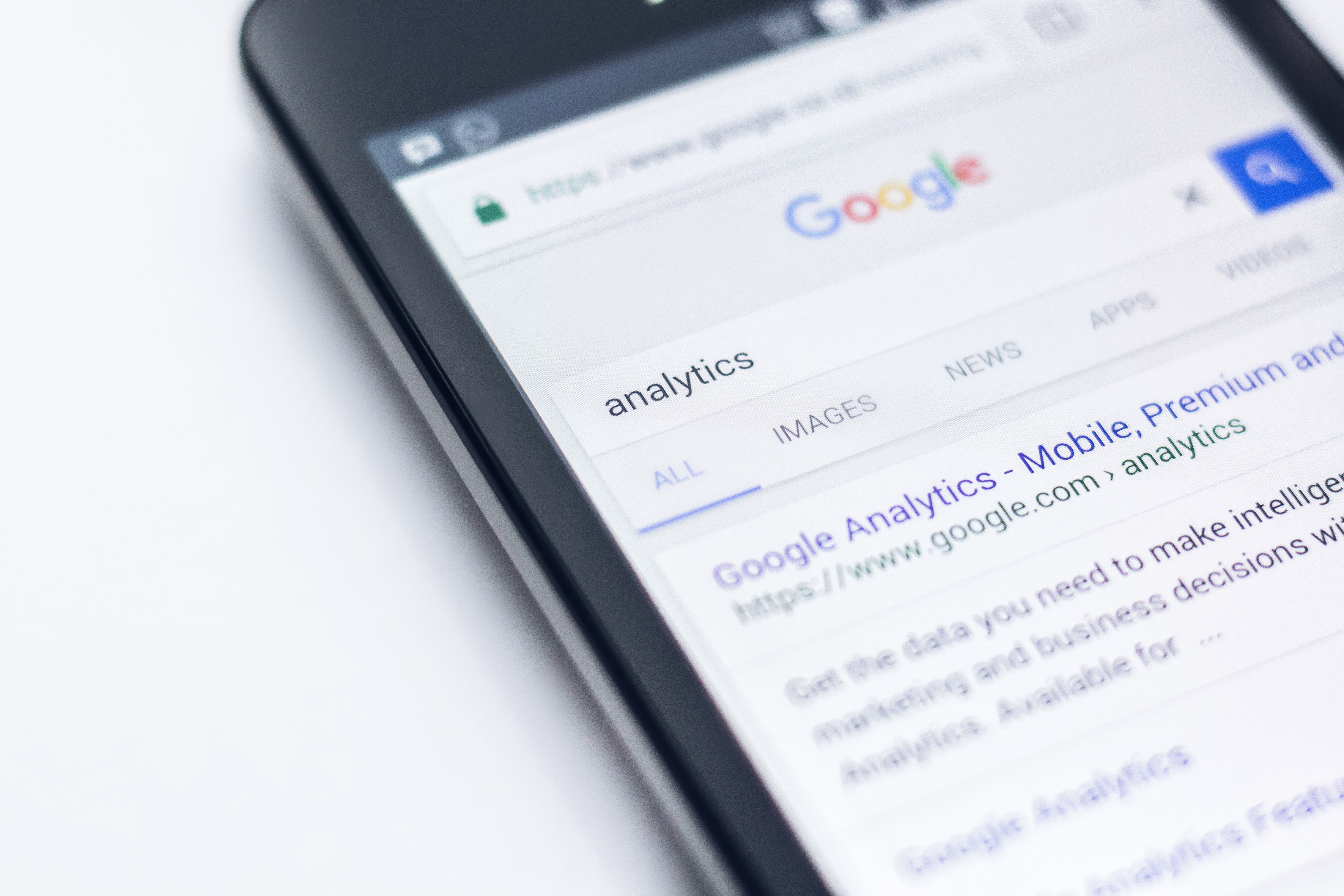 Edho Pratama 2016